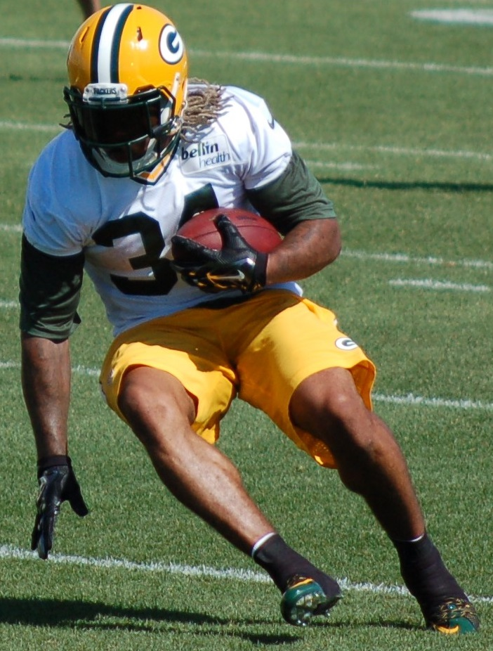 2015 Packers training camp